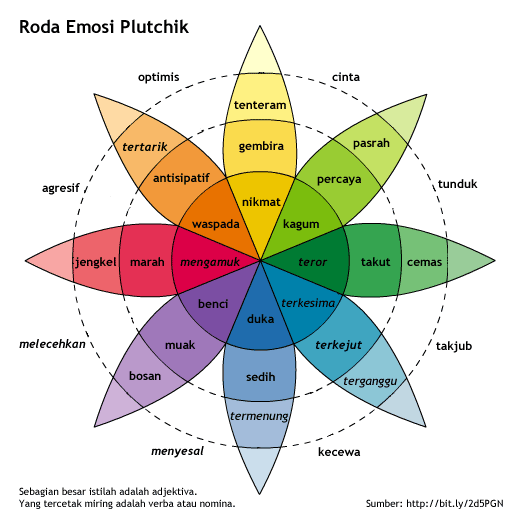 Plutchik's Wheel of Emotions, Indonesian language. Based on File:Plutchik's Wheel of Emotions.png by User:Ivan Akira